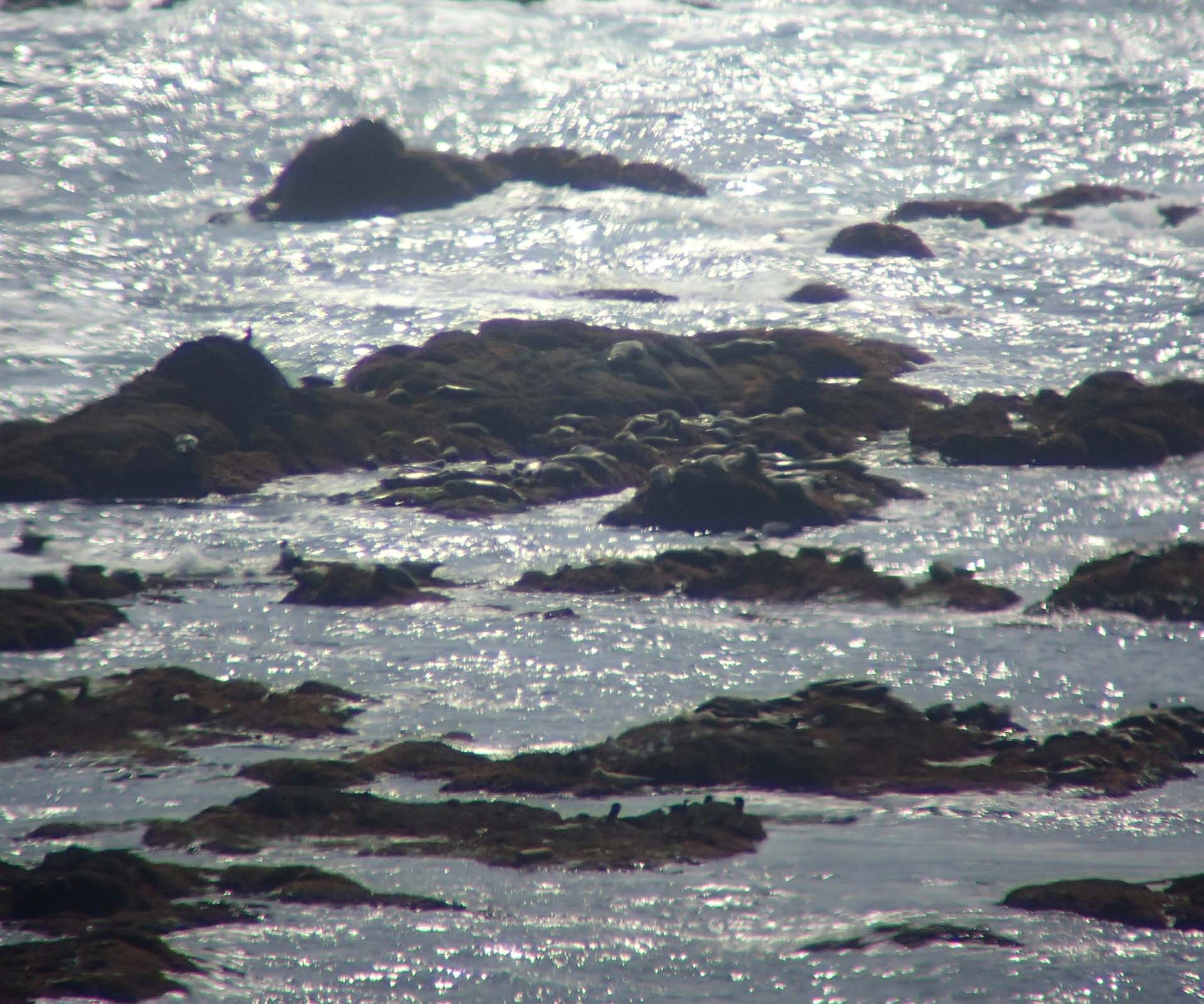 襟裳岬 風の館からのアザラシ観察